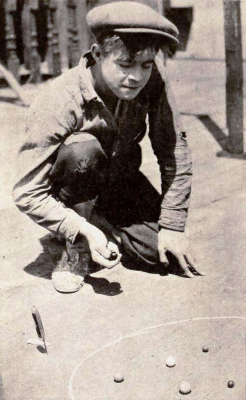 Still from the American drama film The Soul of Youth (1920) with Lewis Sargent relaxing on the studio lot, on page 50 of the December 4, 1920 Exhibitors Herald.